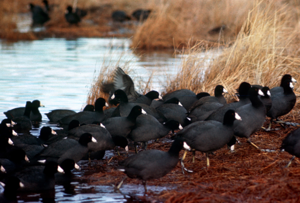 American Coot Flock